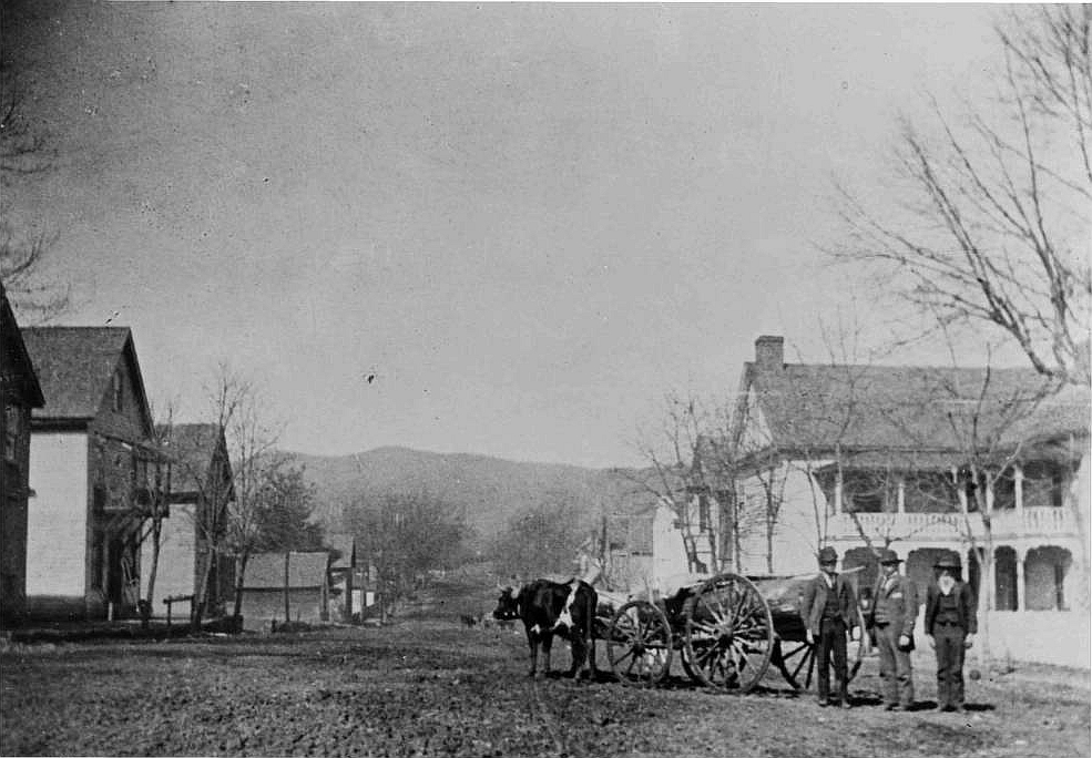 Main Street, Brevard, North Carolina.